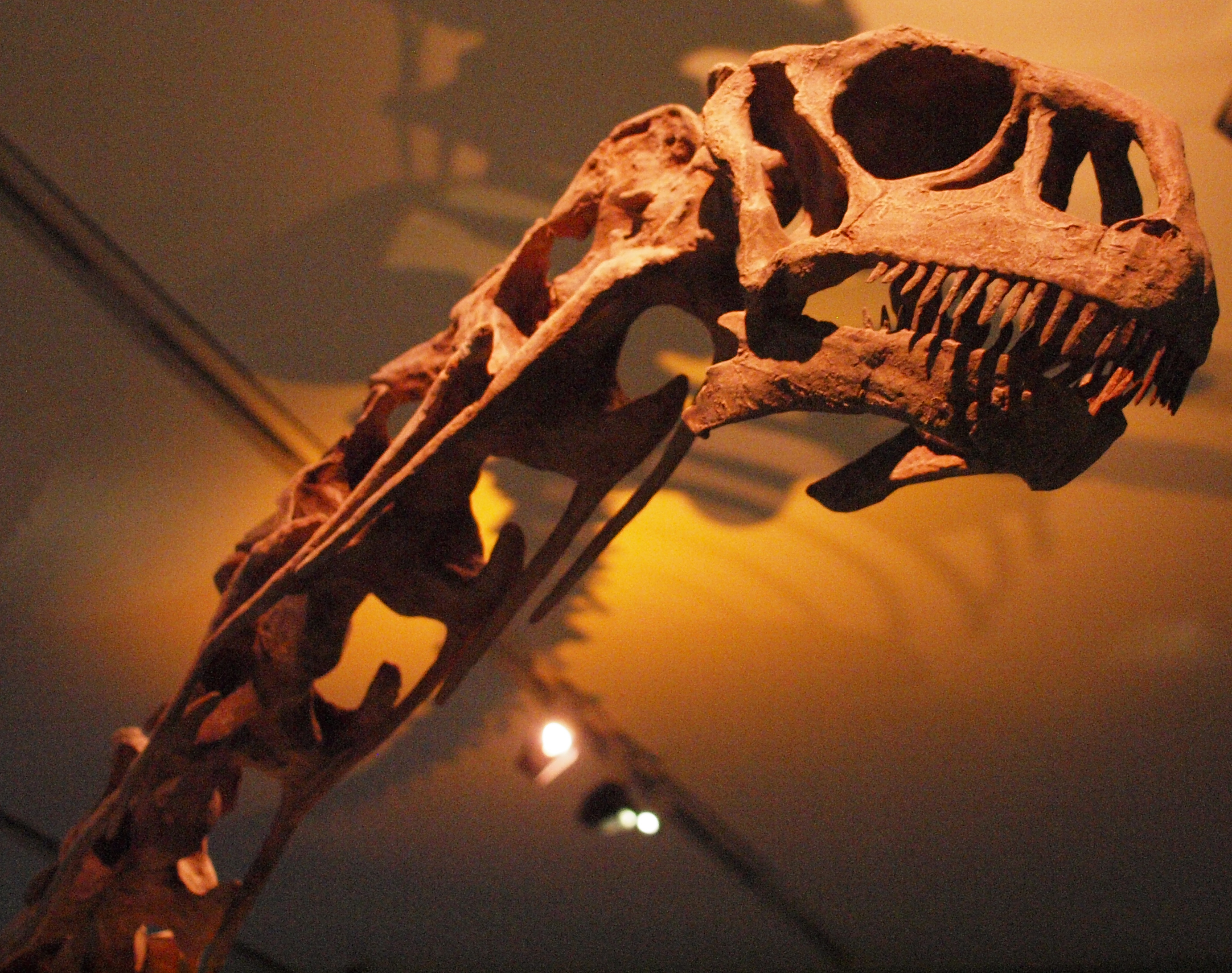 Close-up of Malawisaurus Skull on Display at the Royal Ontario Museu